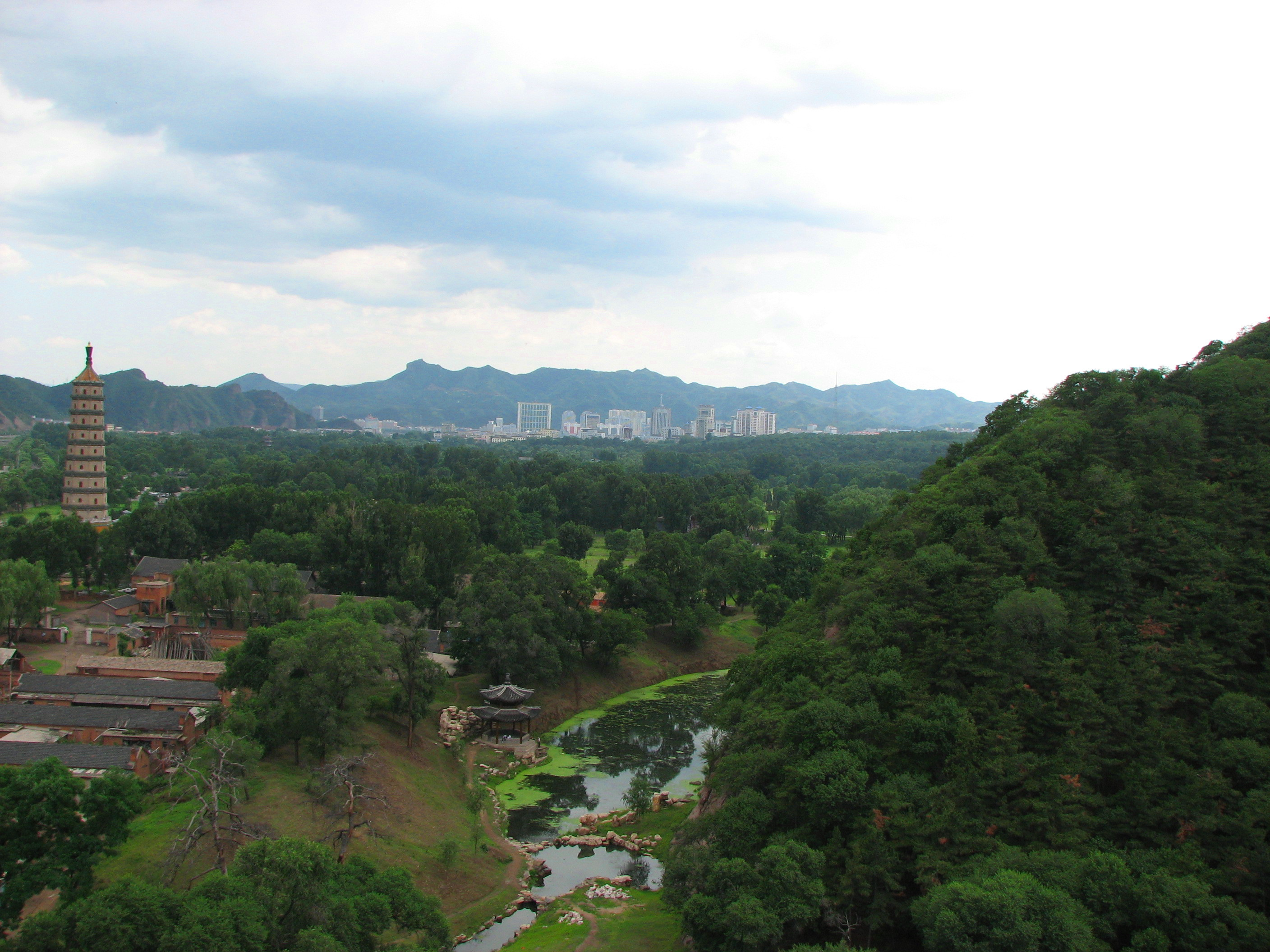 A view of Chengde.